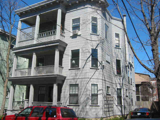 Picture of the triple decker next door to me -- taken by me on December 3, 2006.